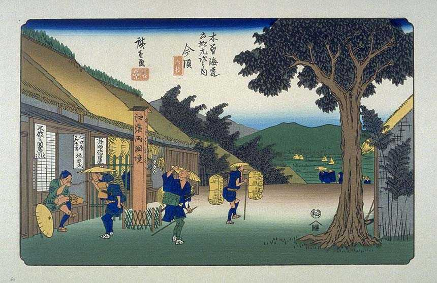 Imasu on the Kisokaido, ukiyo-e prints by Hiroshige